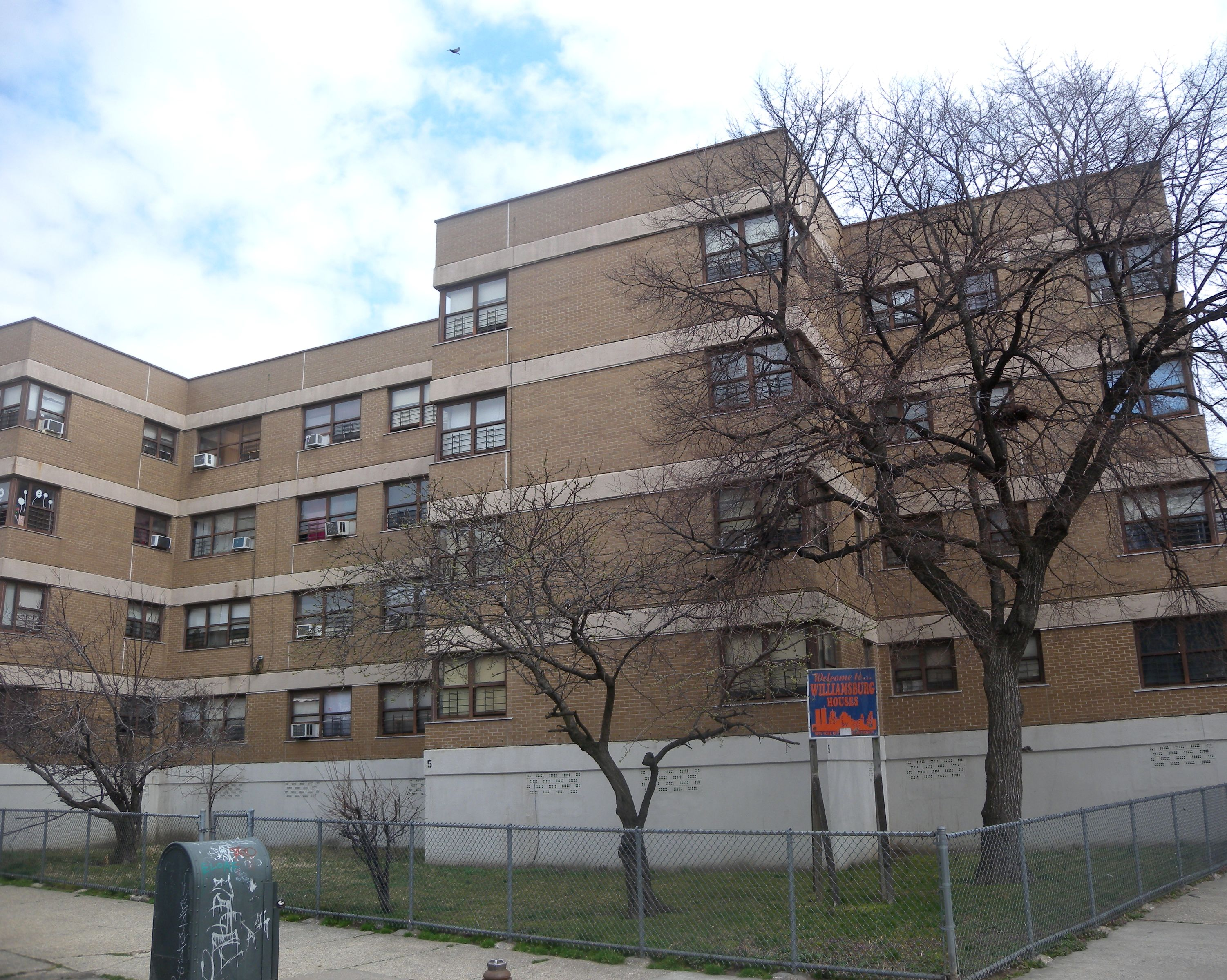 Looking east from Leonard and Sholes Streets at Williamsburg Houses on a mostly cloudy day. EXIF location is incorrect due to photographer's error.